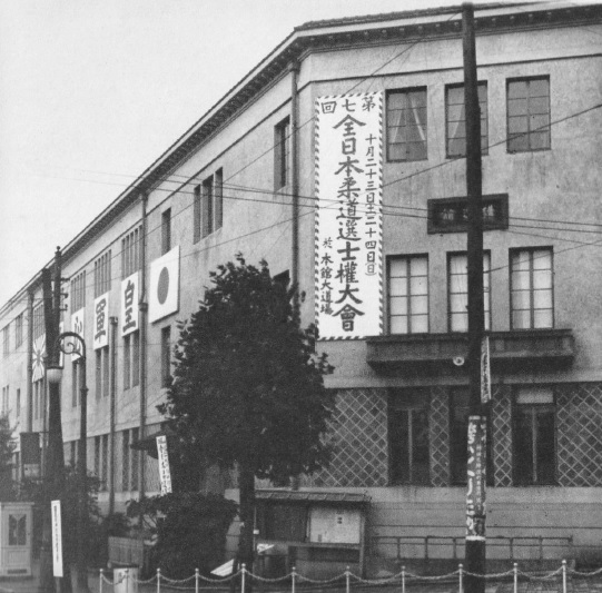 Kodokan building at Suidōbashi, Tokyo in 1937.